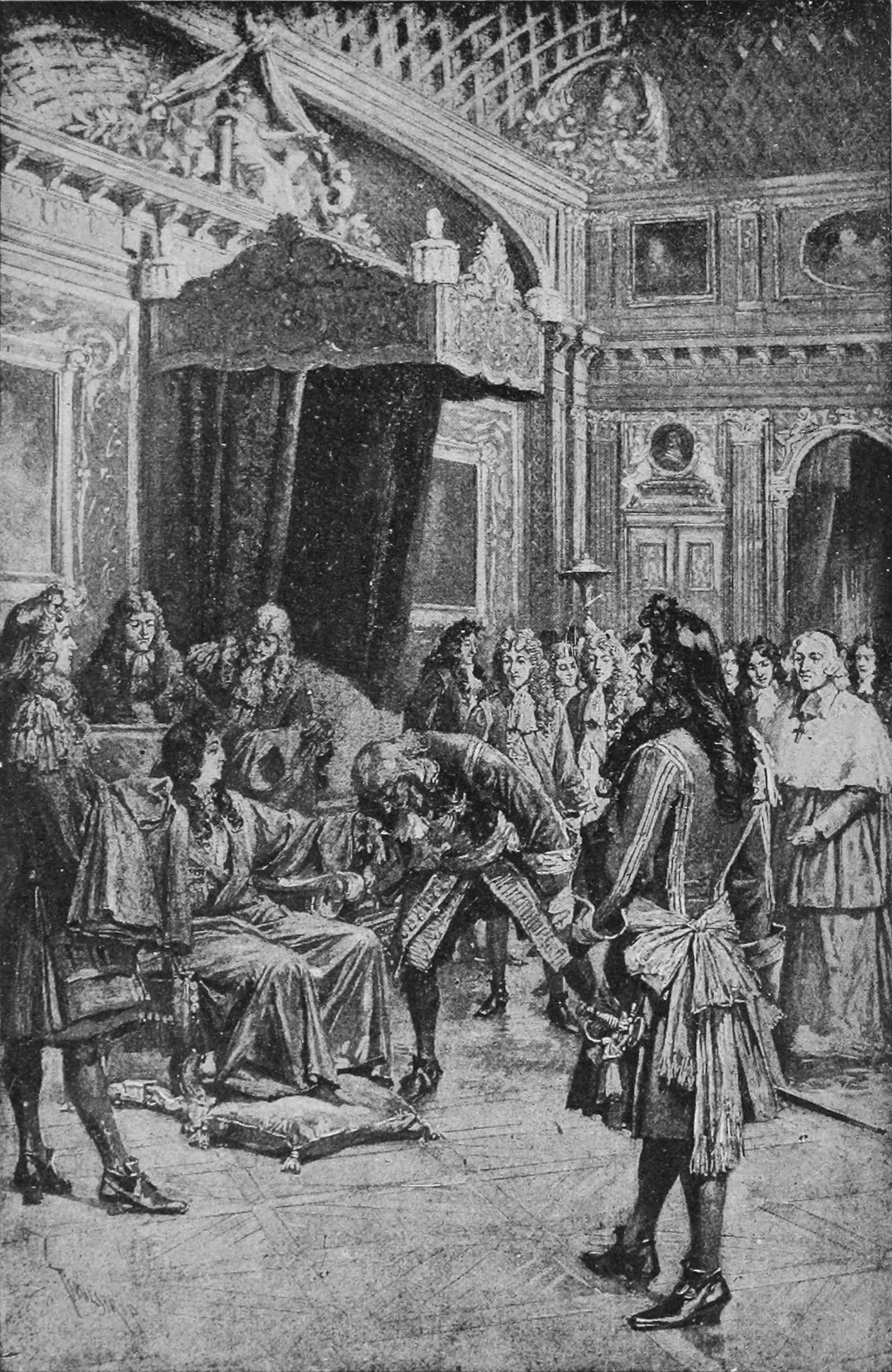 Frontispiece: The "Grand Lever" of the King (from Harper & Brothers Publishers edition)